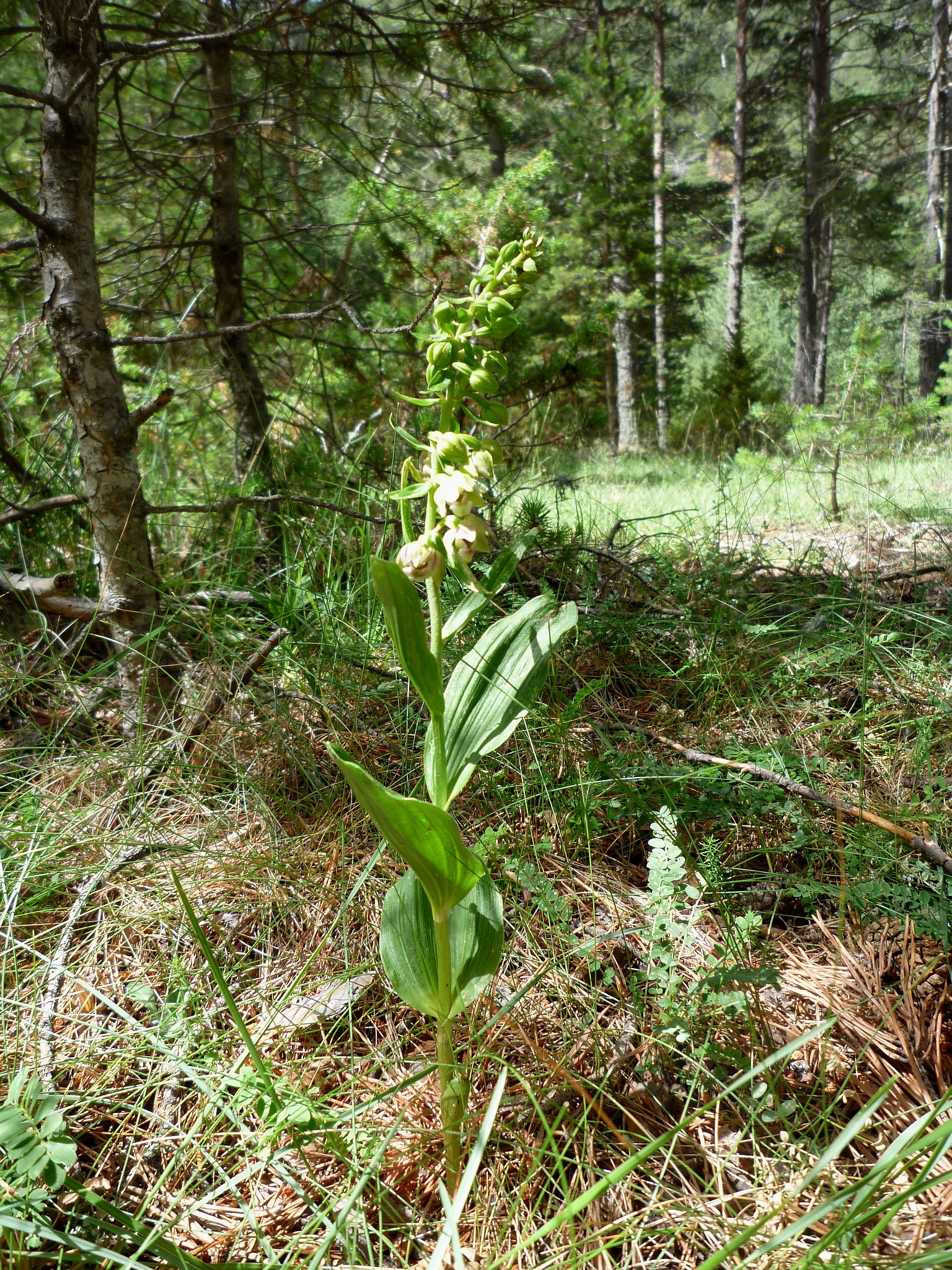 Epipactis helleborine. In la Bòfia, Tuixén (Alt Urgell - Catalunya). To 1.590 m. altitude